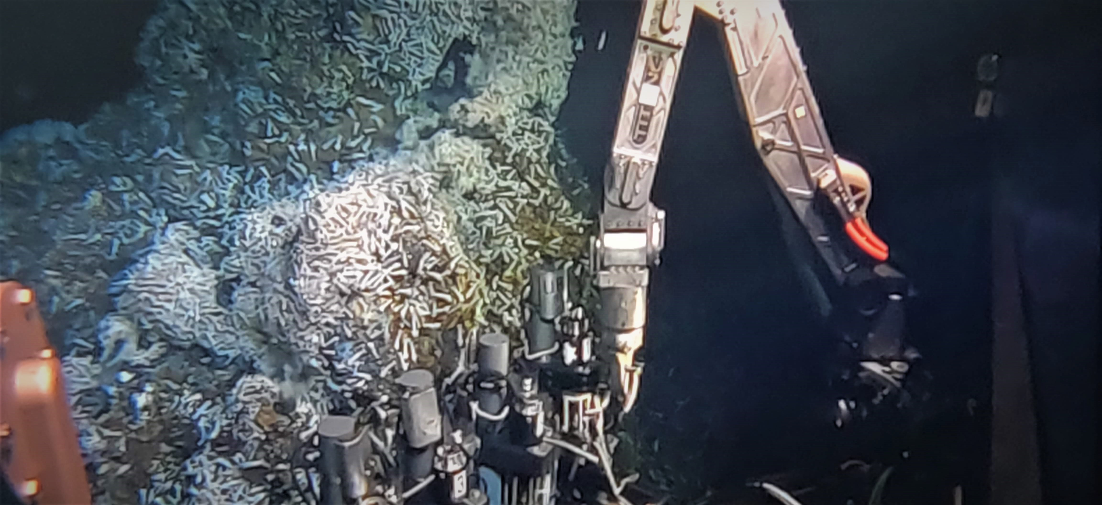 ROV Jason samples at the vent nicknamed Bartizan at the Von Damm Vent Field.